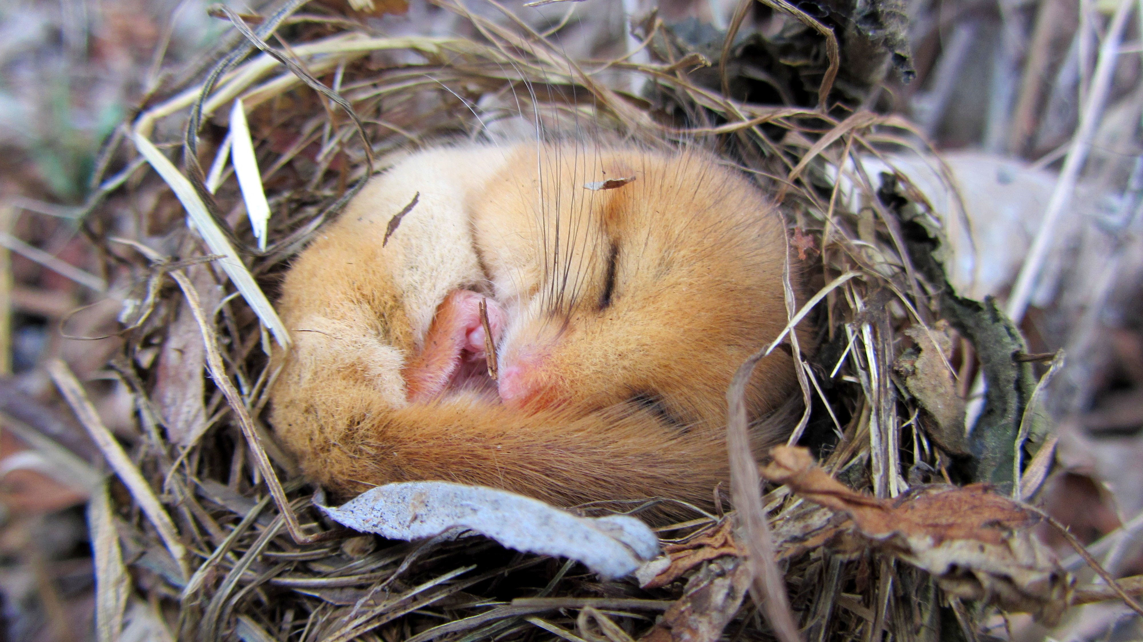 A hazel dormouse or common dormouse (Muscardinus avellanarius) during hibernation found in a bird box. Central Germany end of march.